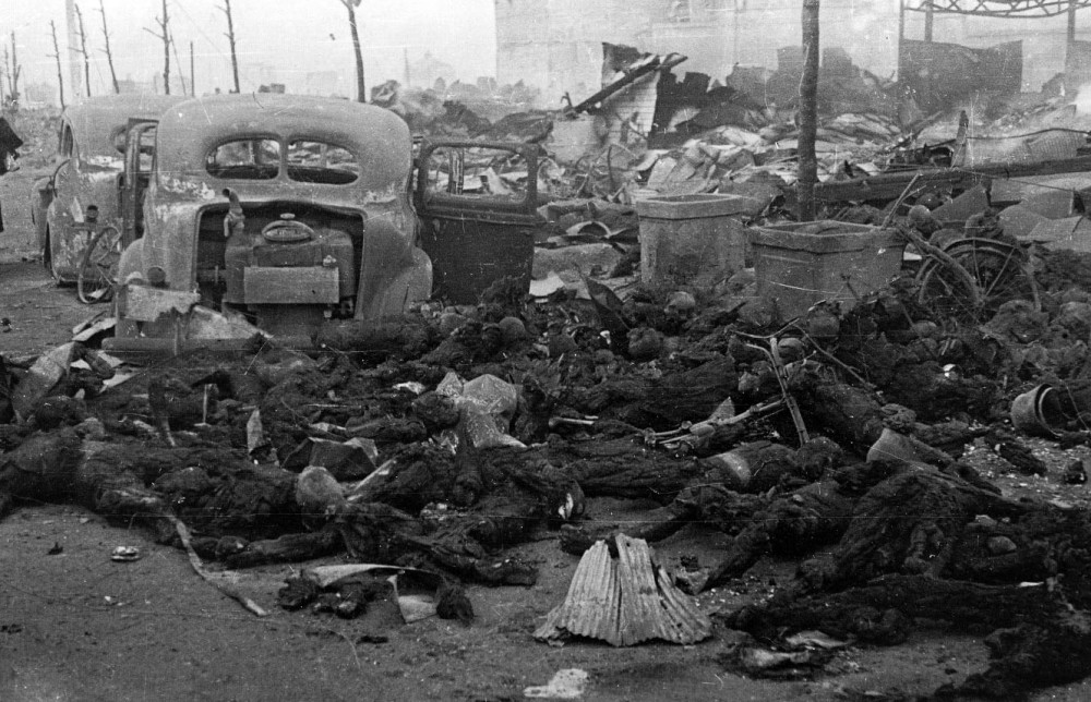 Photo taken by Ishikawa Kōyō(1904-1989) around 10 March, 1945.